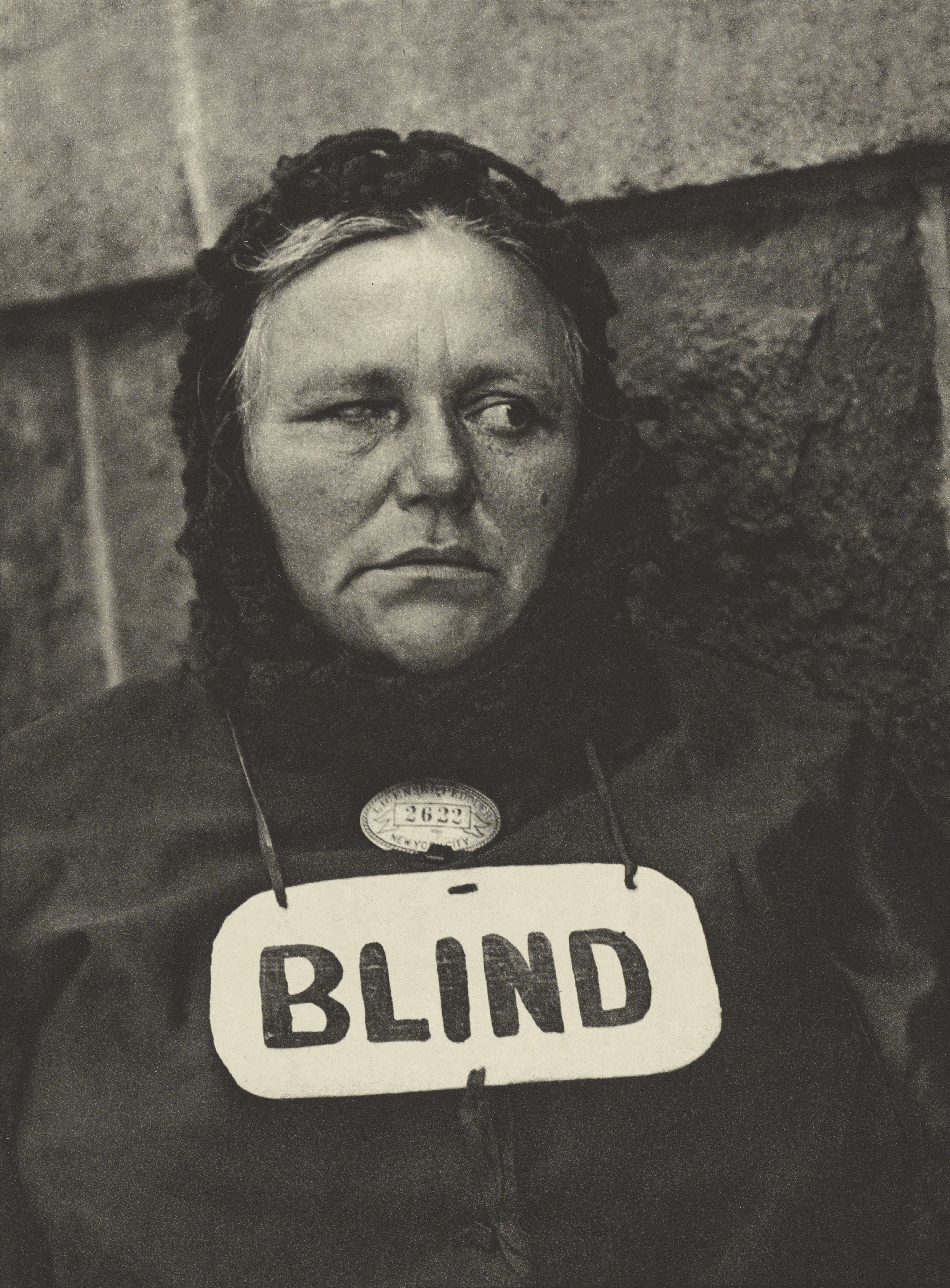 Photograph - New York; Paul Strand (American, 1890 - 1976); New York, United States; negative 1916; print June 1917; Photogravure; 22.4 x 16.7 cm (8 13/16 x 6 9/16 in.); 93.XB.26.53